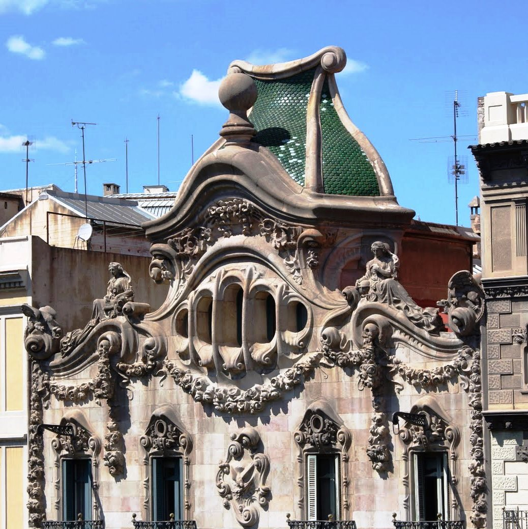 Like a tribute to Gaudí, the Casa Comalat contains many elements of Gaudí's architecture, and is one of the most original examples of home-grown art nouveau in Barcelona: modernisme. Two distinct façades, both of them showing the influence of the curve redolent of the work of the Reus-born maestro, arouse our curiosity to go and take a closer look at this beautiful and unique building. The architect Salvador Valeri i Pupurull worked on the Casa Comalat from 1906 to 1911, and was clearly influenced by Gaudi's organic forms. Dating from the final phase of the "modernista" era, this is a highly original building comprising two façades with a common element: the Gaudiesque curve. The main façade, which overlooks Barcelona's Avinguda Diagonal, is made of stone and is more symmetrical and regular in shape. At street level, there is an interesting wrought-iron doorway and, above it, a central gallery surmounted by a pinnacle. At the top, a series of openings cut into the façade and surrounded by stone garlands jut out above the remaining curved balconies with their floral motifs. The building is surmounted by a turret in the shape of a harlequin's hat clad in glazed green ceramics. This colourful element dominates the rear façade of the building which overlooks Carrer Rosselló, and is freer and more informal in style. The irregular wooden galleries give the façade a dynamic look, and the ceramics that decorate the entire façade lend a splash of colour. The parabolic arches over the doors on the ground floor give the building its Gaudiesque feel, and are just another example of the beauty of this unique building.